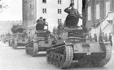 Parade when the regiment Göta livgarde, I 2, in Stockholm was disbanded in 1939. The MBT's depicted are the model 38, Stridsvagn m/38